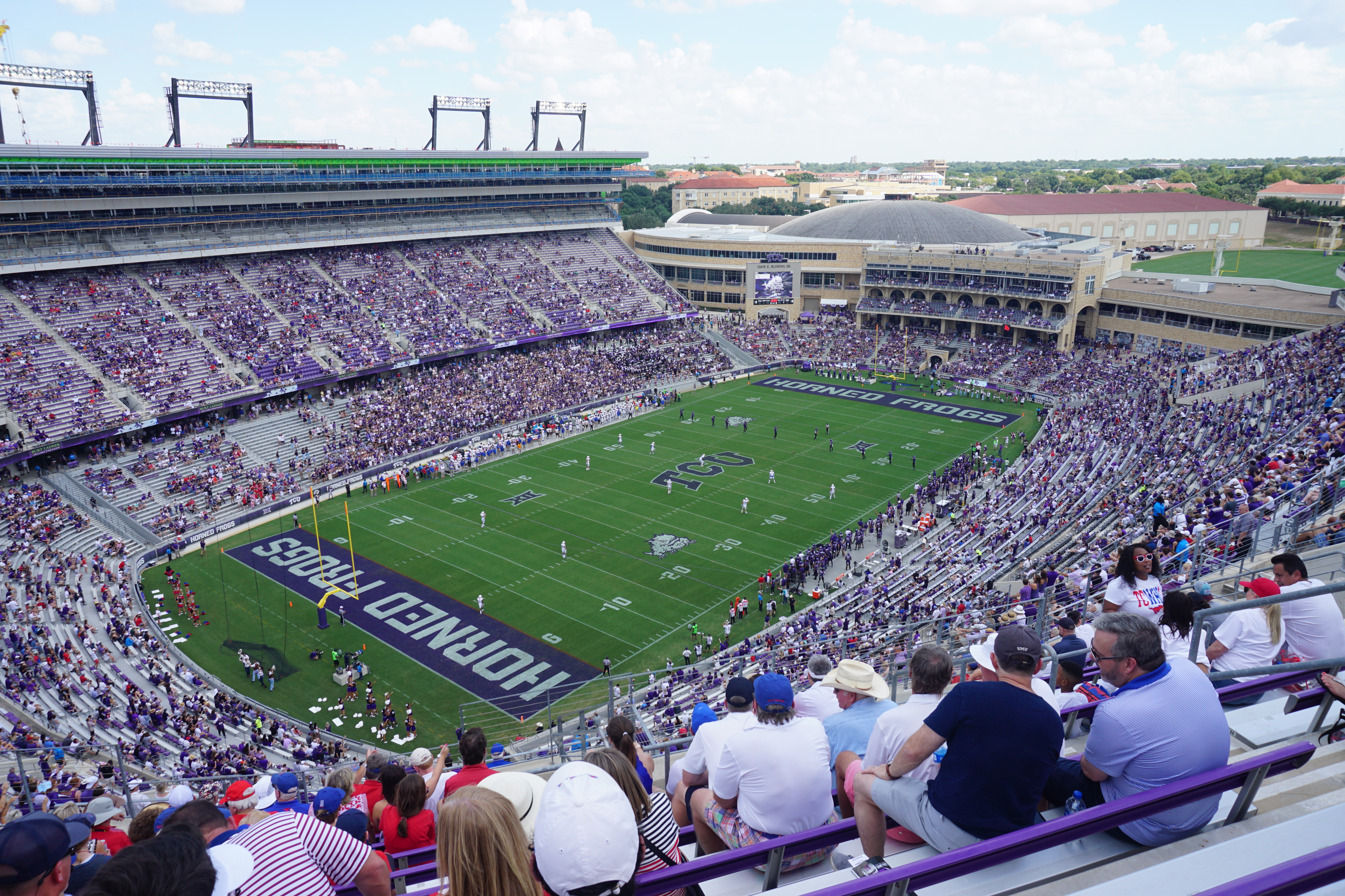 The opening kickoff of the Southern Methodist Mustangs vs. Texas Christian Horned Frogs football game at Amon G. Carter Stadium in Fort Worth, Texas (United States). Southern Methodist won 41–38.